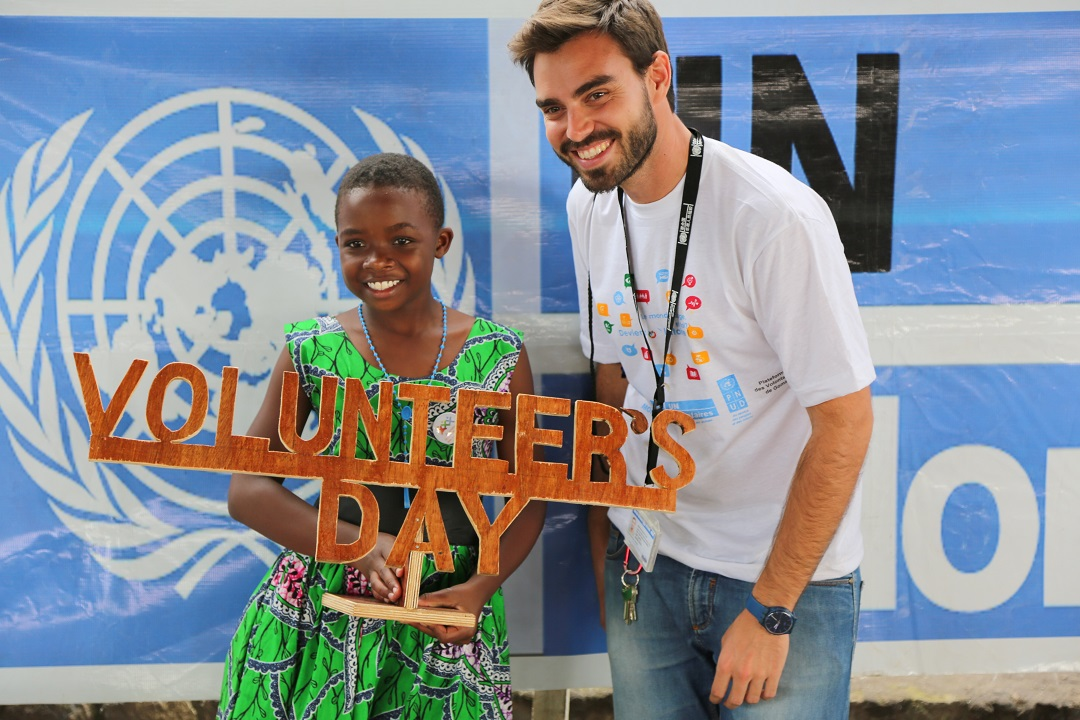 Goma, Nord-Kivu, en RD Congo: Une écolière présente une sculpture en hommage à la Journée Internationale des Volontaires à l'un des volontaires des Nations Unies. Photo MONUSCO/Michael Ali = Goma, North Kivu, DR Congo: A school girl presents a carving in honor of the International Volunteer’s Day to one of the UN Volunteers. Photo MONUSCO/Michael Ali